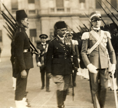 Crown Prince Umberto II of Italy visiting Cairo.